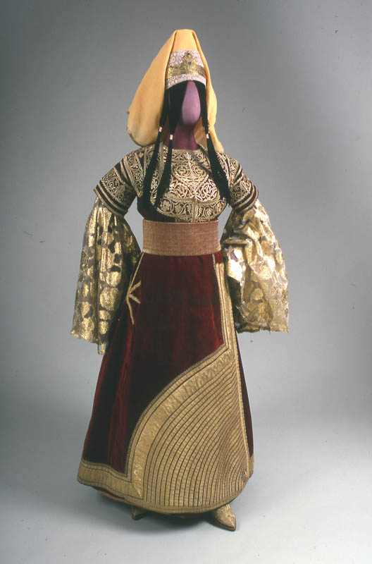 Description: This elaborate eight-piece costume is an example of the traditional festive dress of Moroccan Jewish women, worn by brides and at other celebrations. It is probably based on medieval Spanish Jewish costume, with its origins usually traced to the 15th century Spanish vertugada (hoop skirt, known as a "farthingale" in England). Date: 19/20th century Persistent URL: Repository: Yeshiva University Museum, 15 West 16th Street, New York, NY 10011 Call Number: 1977.160 Rights Information: No known copyright restrictions; may be subject to third party rights. For more copyright information, click here. See more information about this image and others at CJH Digital Collections. Digital images created by the Gruss Lipper Digital Laboratory at the Center for Jewish History